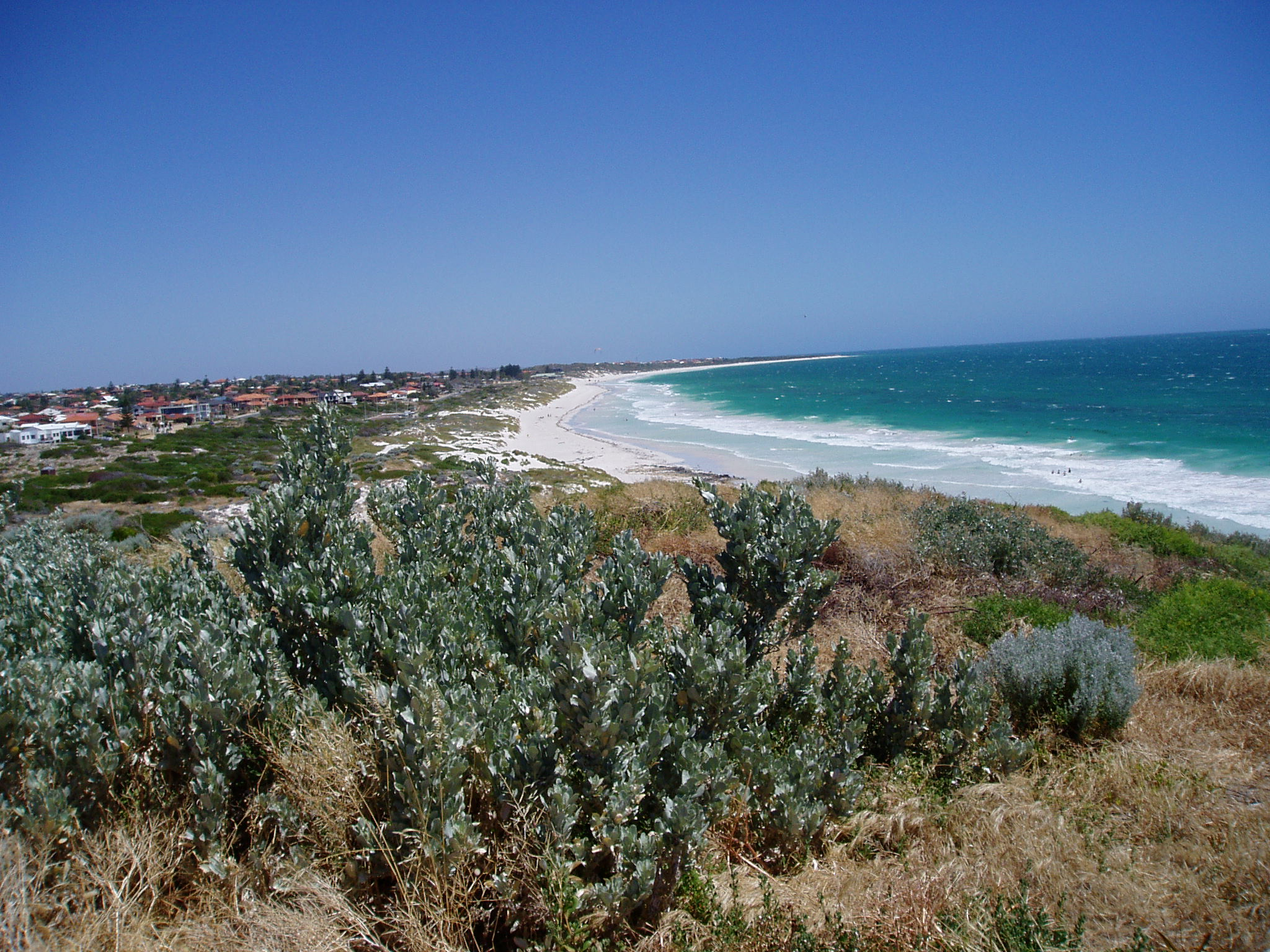 Mullaloo Beach, a surburb of Perth, Western Australia. Photo by Andy Robertson